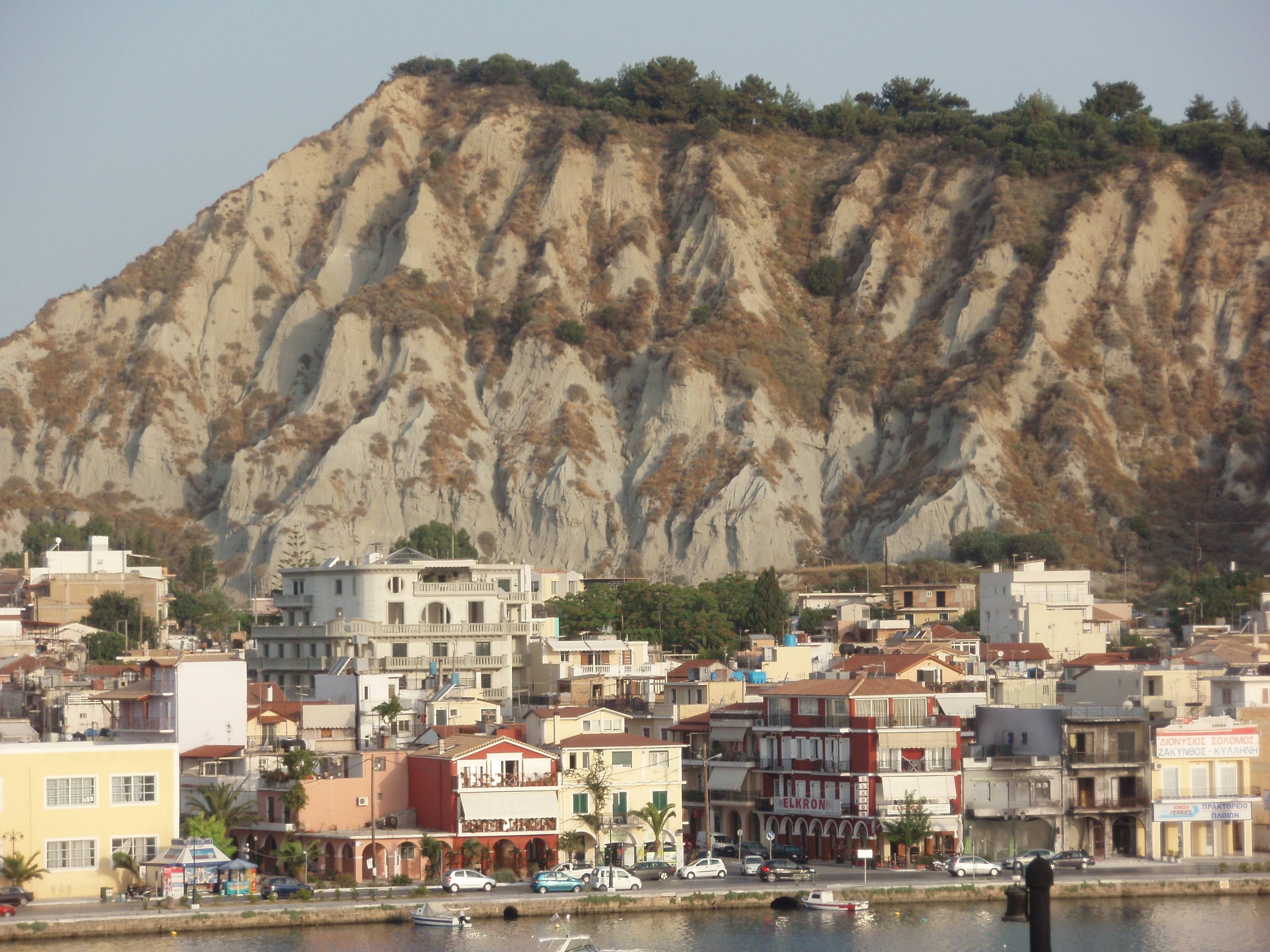 Houses on the waterfront (Strada marina, Leoforos K. Lomvardou) of Zakynthos (city), Greece. Bochali hill is visible in the background of the picture.